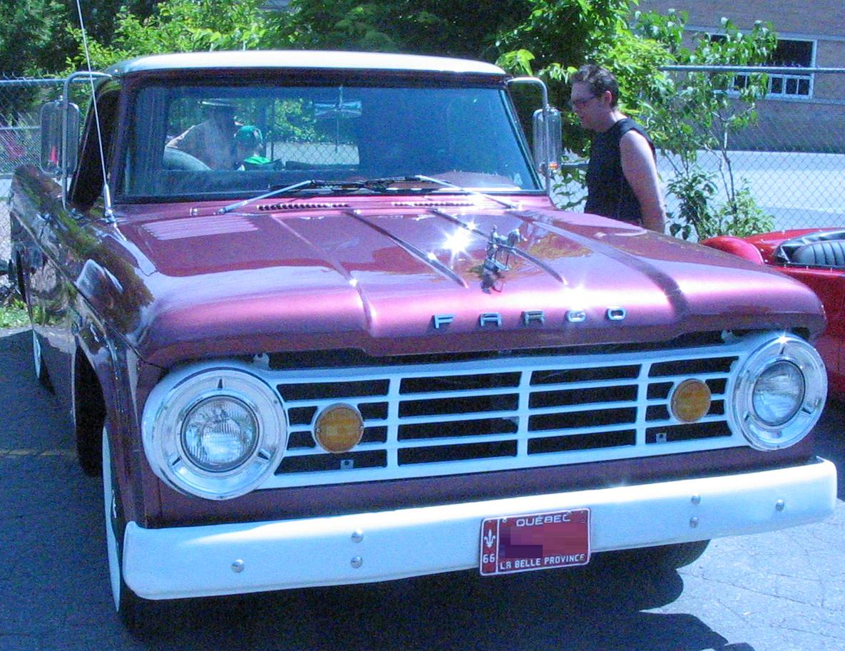 1966 Fargo photographed in Laval, Quebec, Canada at the Auto classique Laval.